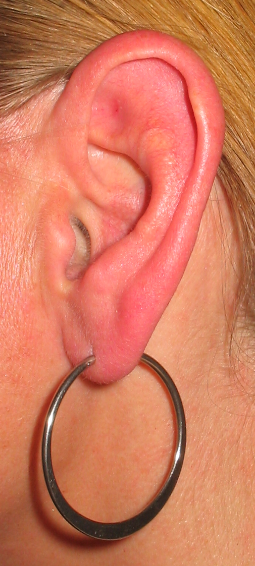 A woman's ear with a large silver earring. The ear belongs to my friend Nancy. David Benbennick took this photograph on April 3, 2005.